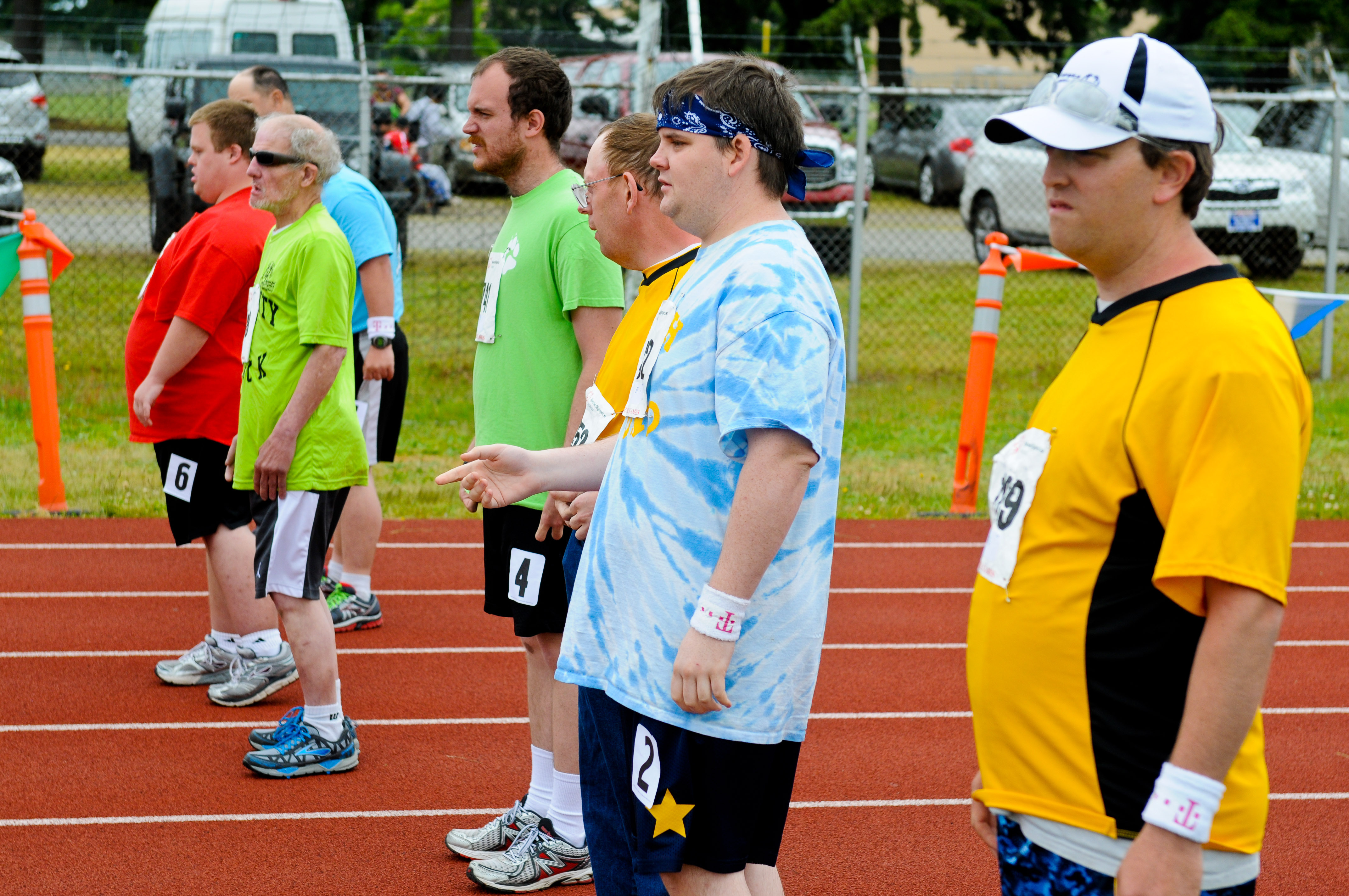 Atheletes wait for the beginning of their 200-meter dash race during the athletics portion of the 2014 Special Olympics Washington Summer Games at Joint Base Lewis-McChord, Wash., June 1. JBLM has been the host for the Special Olympics Washington Summer Games for more than four decades.